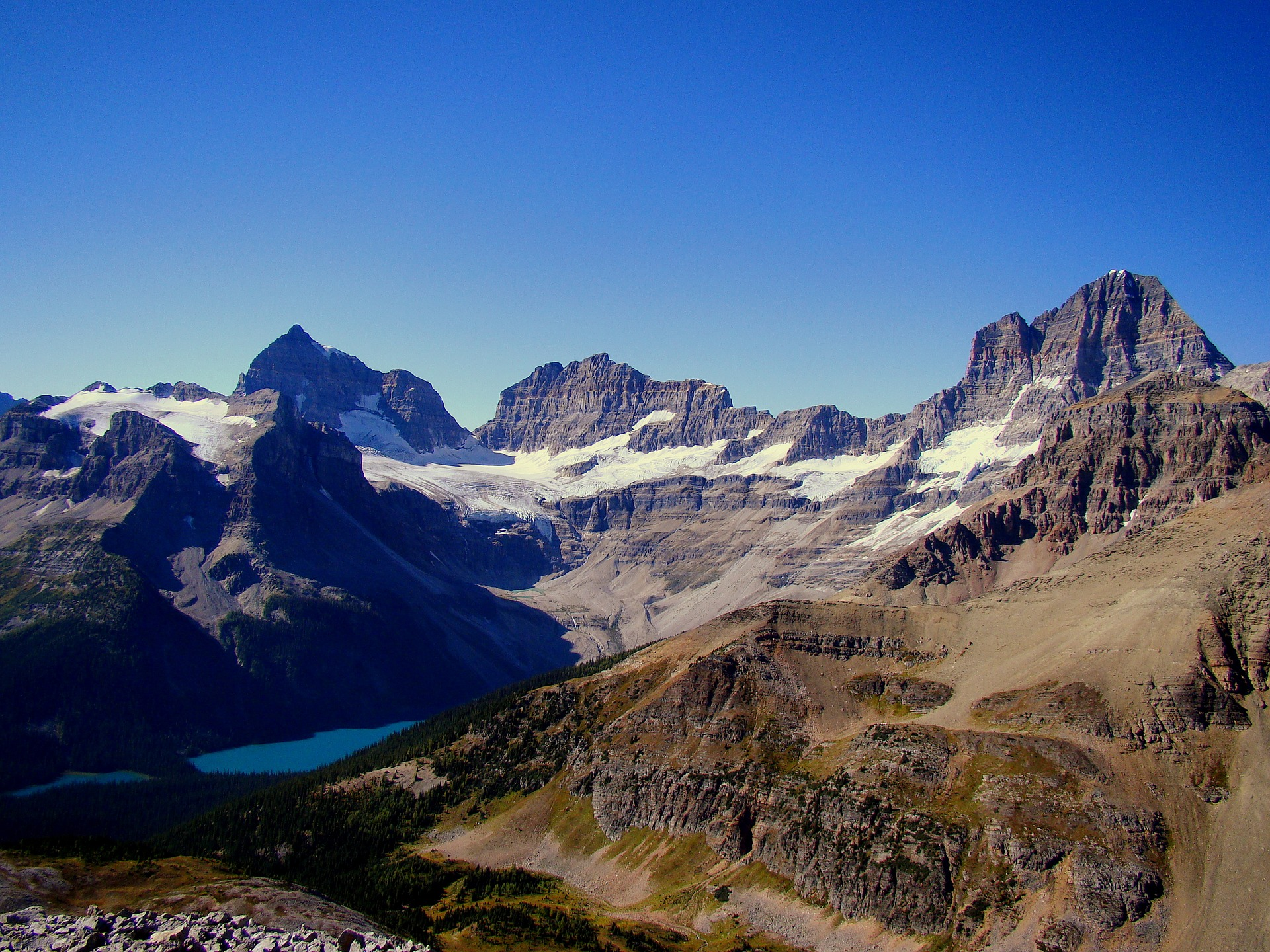 Left to Right: Mt. Gloria, Eon and Aye Mountains, Mt Assiniboine. Lake Gloria below. Continental Divide, British Columbia and Alberta